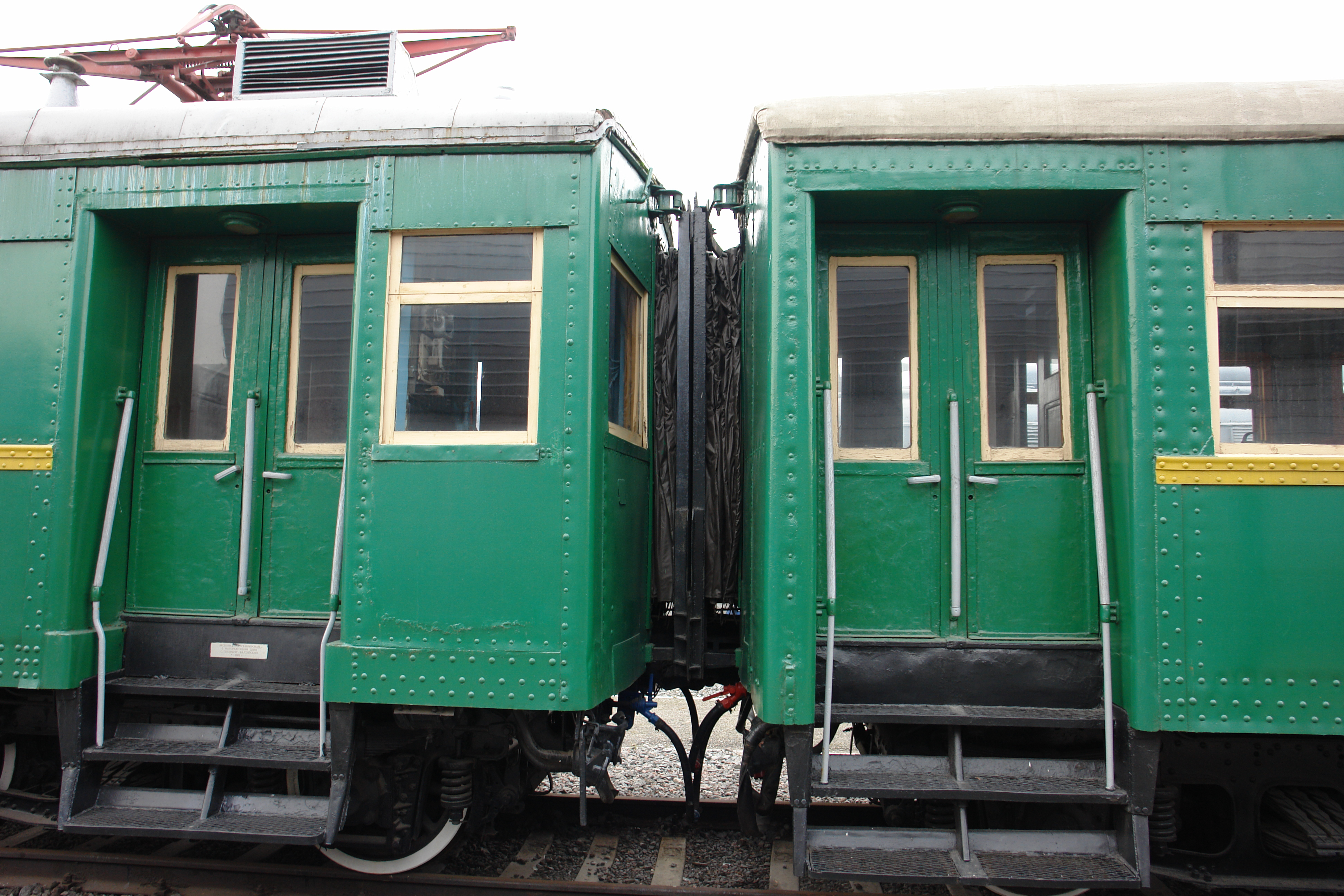 MOTOR COACH OF ELECTRIC TRAIN SM027 Current system3000 Vd.c.Tare weight57 tSeating capacity105Design speed85 kph Built by Mytishchi Works in 1932 as class Sv, with electric equipment from the British firm Metropolitan Vickers. Originally worked on 1500 Vd.c, rebuilt in 1956 to 3000 V d.с (reclassified to SM) and later rebuilt for use with low station platforms. Received by the museum from the Slaviansk locomotive depot (Donetsk Railway). The coach is a part of the collection of the Central Museum of Railway Transport.